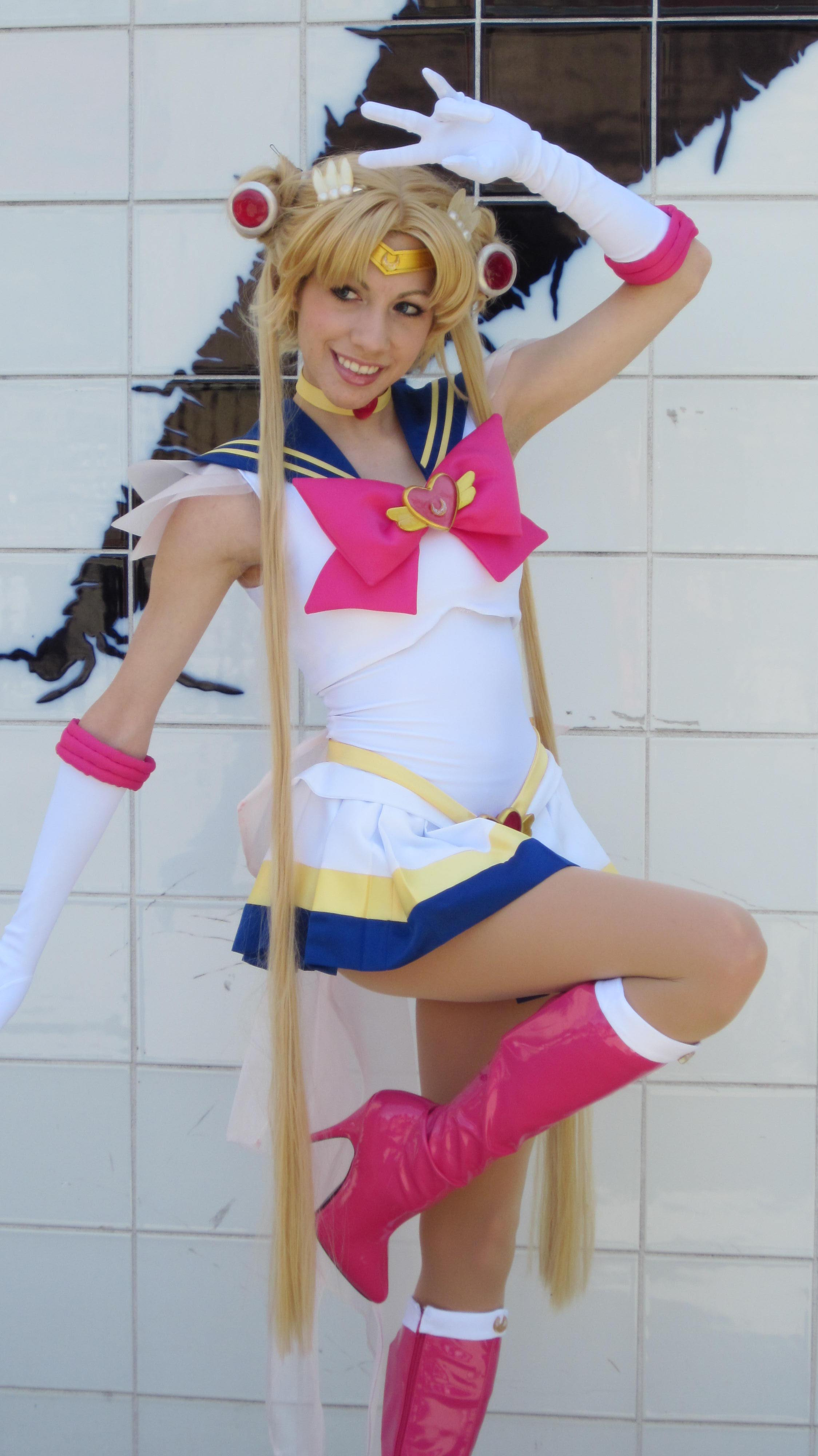 A cosplayers portraying Sailor Moon from Sailor Moon at FanimeCon in San Jose, California.